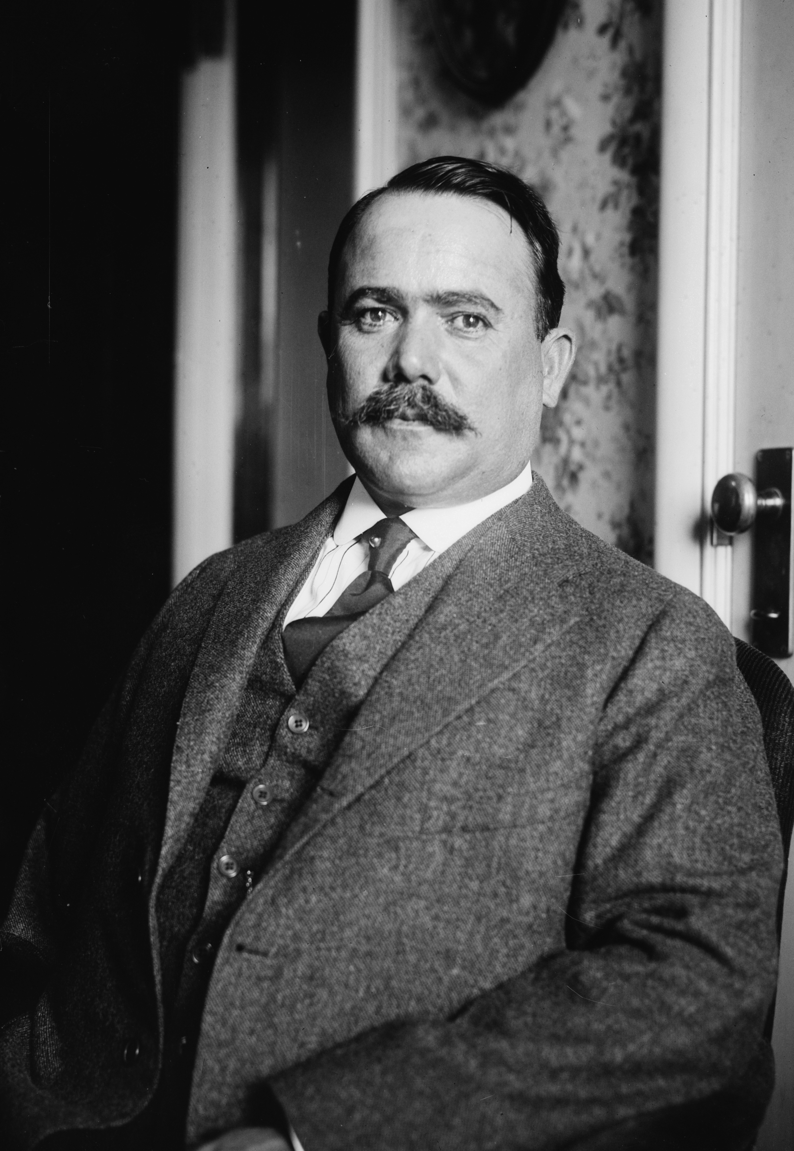 Álvaro Obregón, former President of Mexico (1920 - 1924).